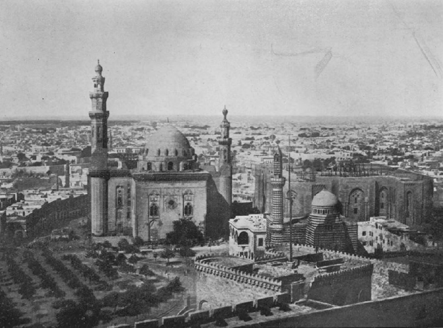 Mosque-Madrassa of Sultan Hassan, around 1907